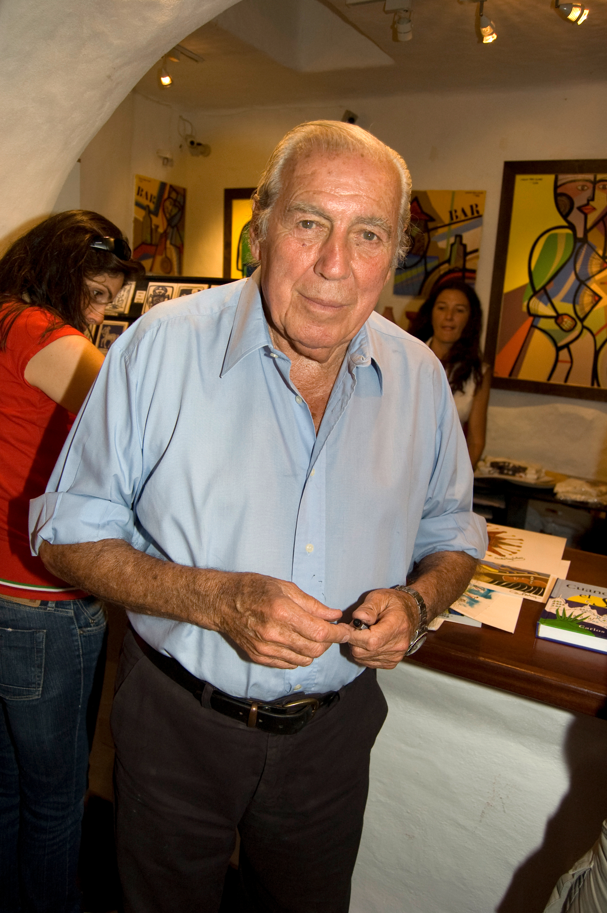 Uruguayan artist and architect Carlos Páez Vilaró